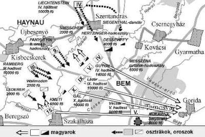 Map of the Battle of Témesvar